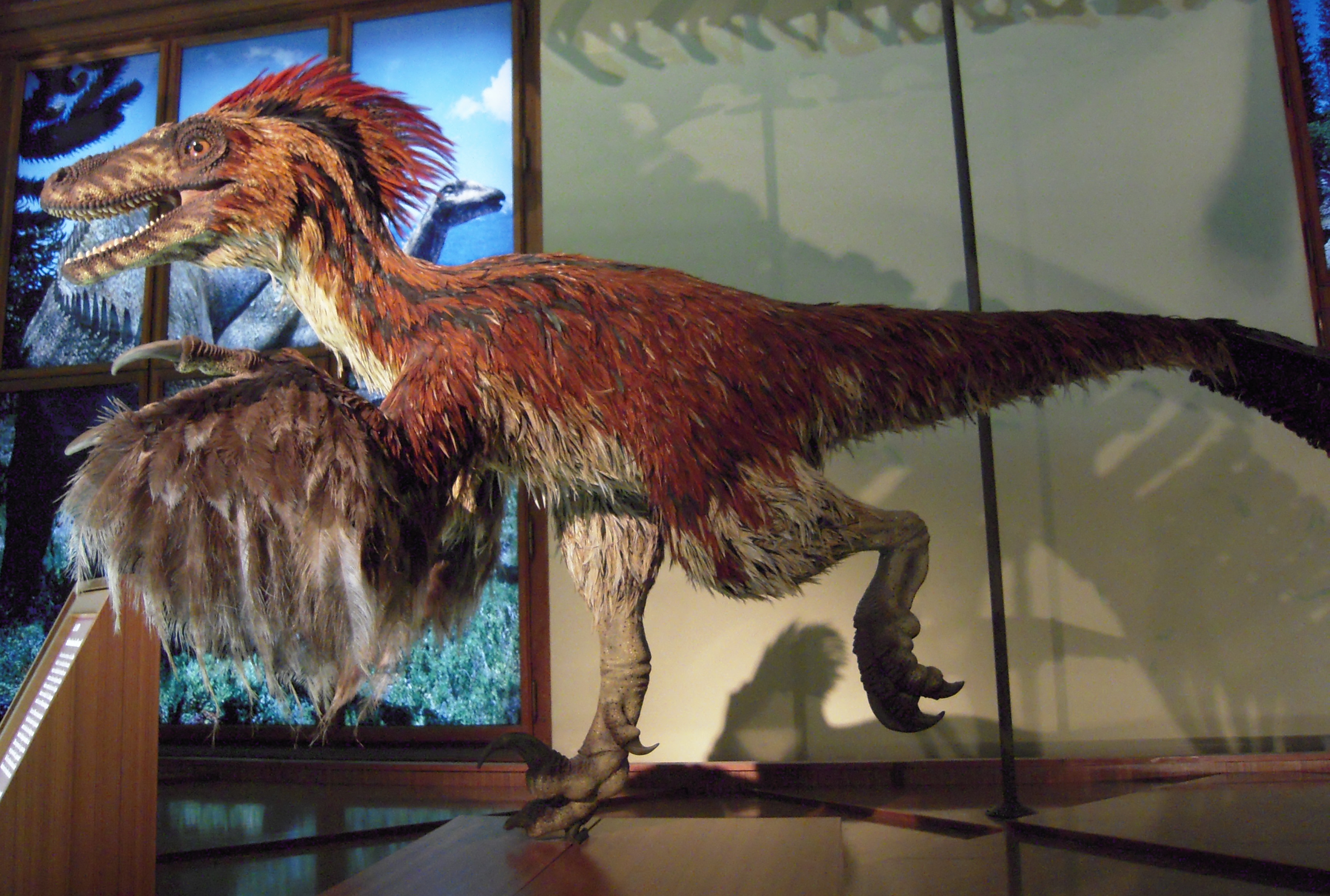 Live reconstruction of Deinonychus in the Natural History Museum Vienna by Stephen Czerkas